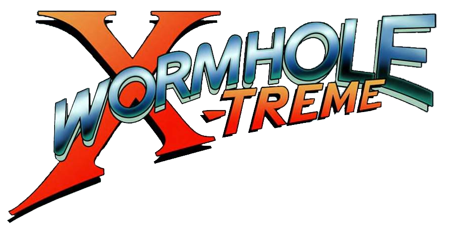 Logo of the fictional TV show Wormhole X-Treme in Stargate SG-1